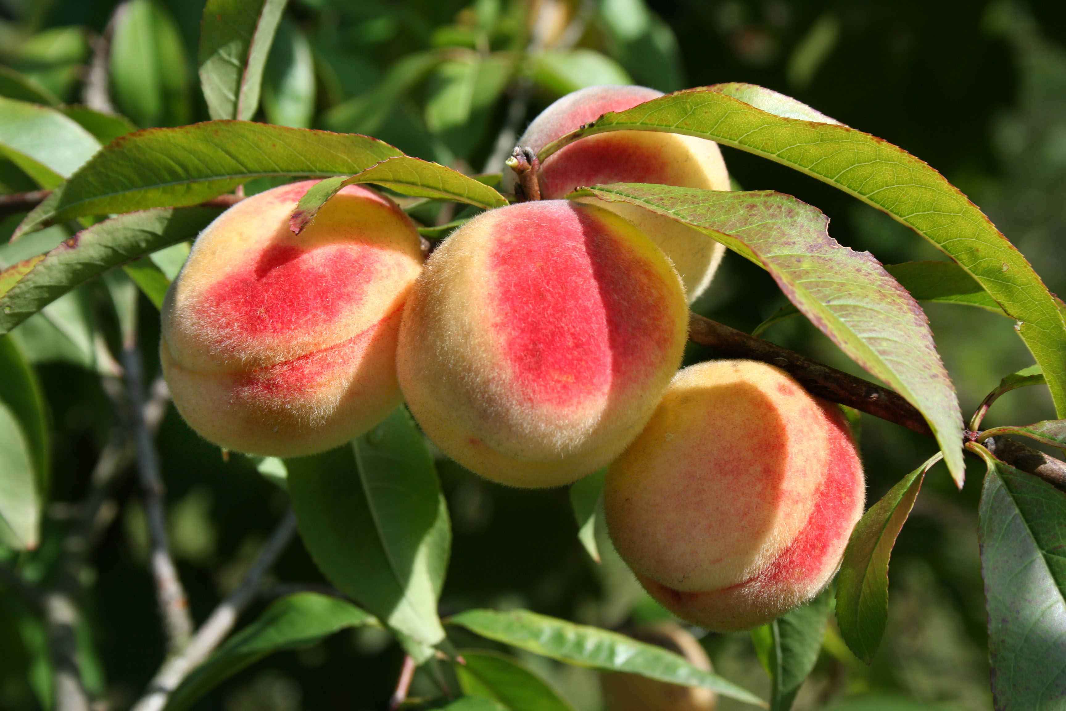 Prunus persica - Peach Hungary